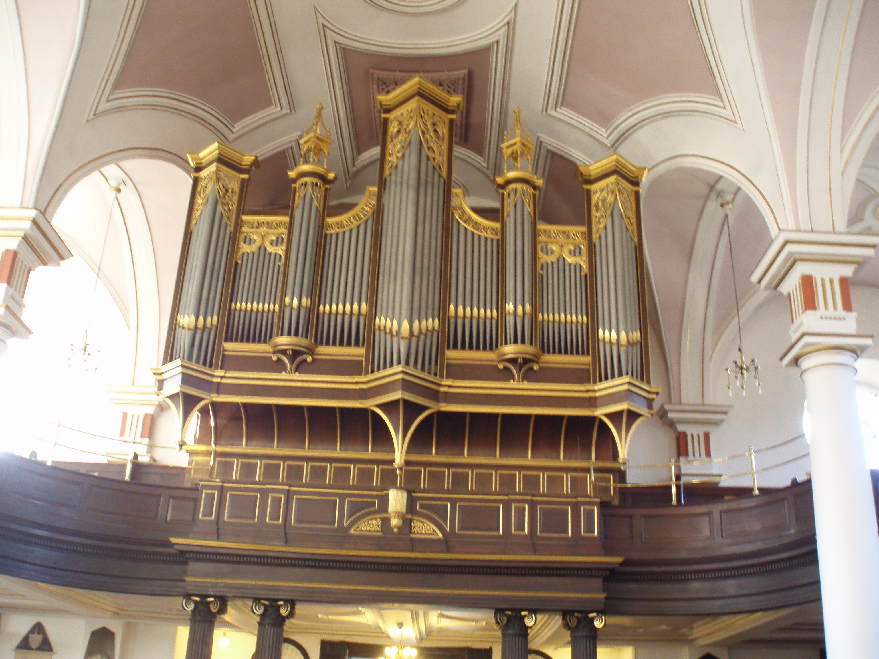 An upwards view of the organ of Derby Cathedral, Derbyshire.